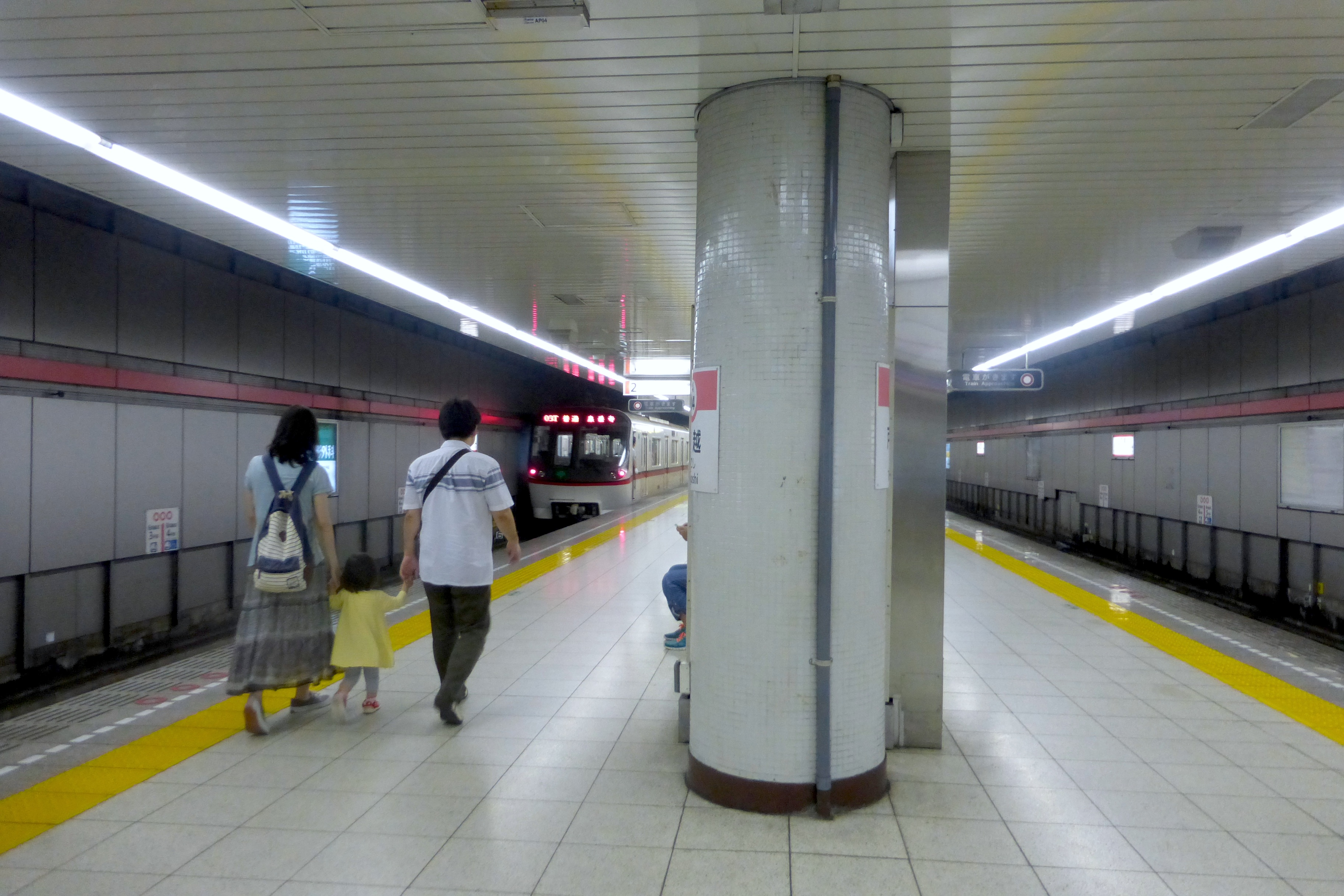 Togoshi Station platform (戸越のホーム)